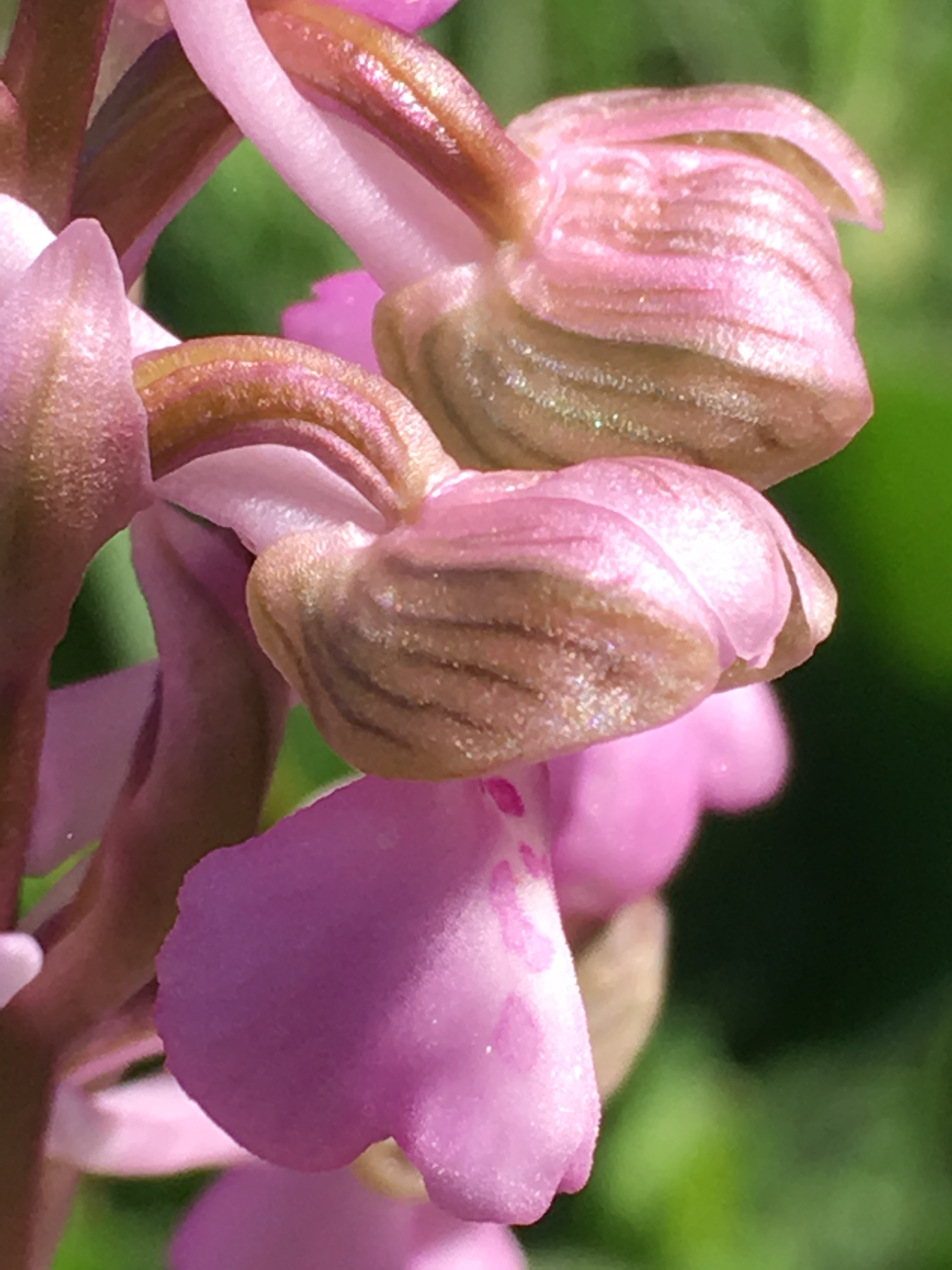 Green winged orchid, Anacamptis morio, photographed at Leyburn Old Glebe, Yorkshire, United Kingdom in 2018